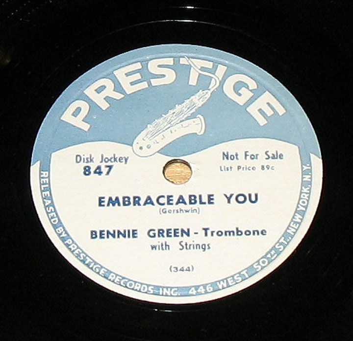 Bennie Green Embraceable You